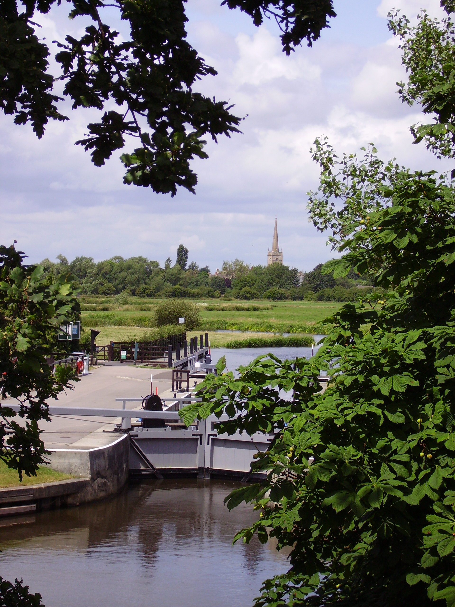 Photographer: User:Ballista